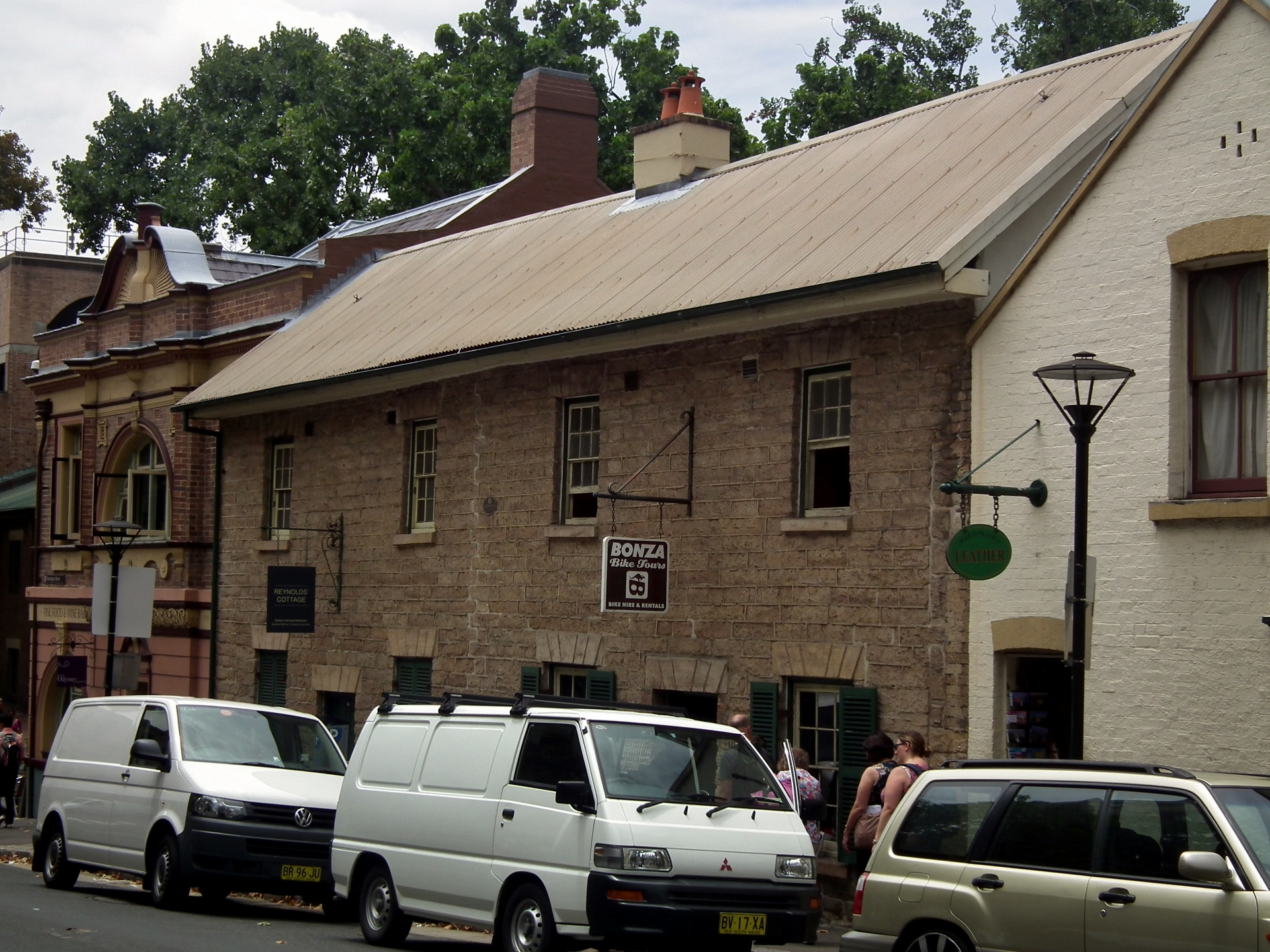 Reynolds' Cottages - The Rocks NSW. Built between 1823 and 1829. Bought by William Reynolds in 1830. Located at 28-30 Harrington Street, The Rocks.